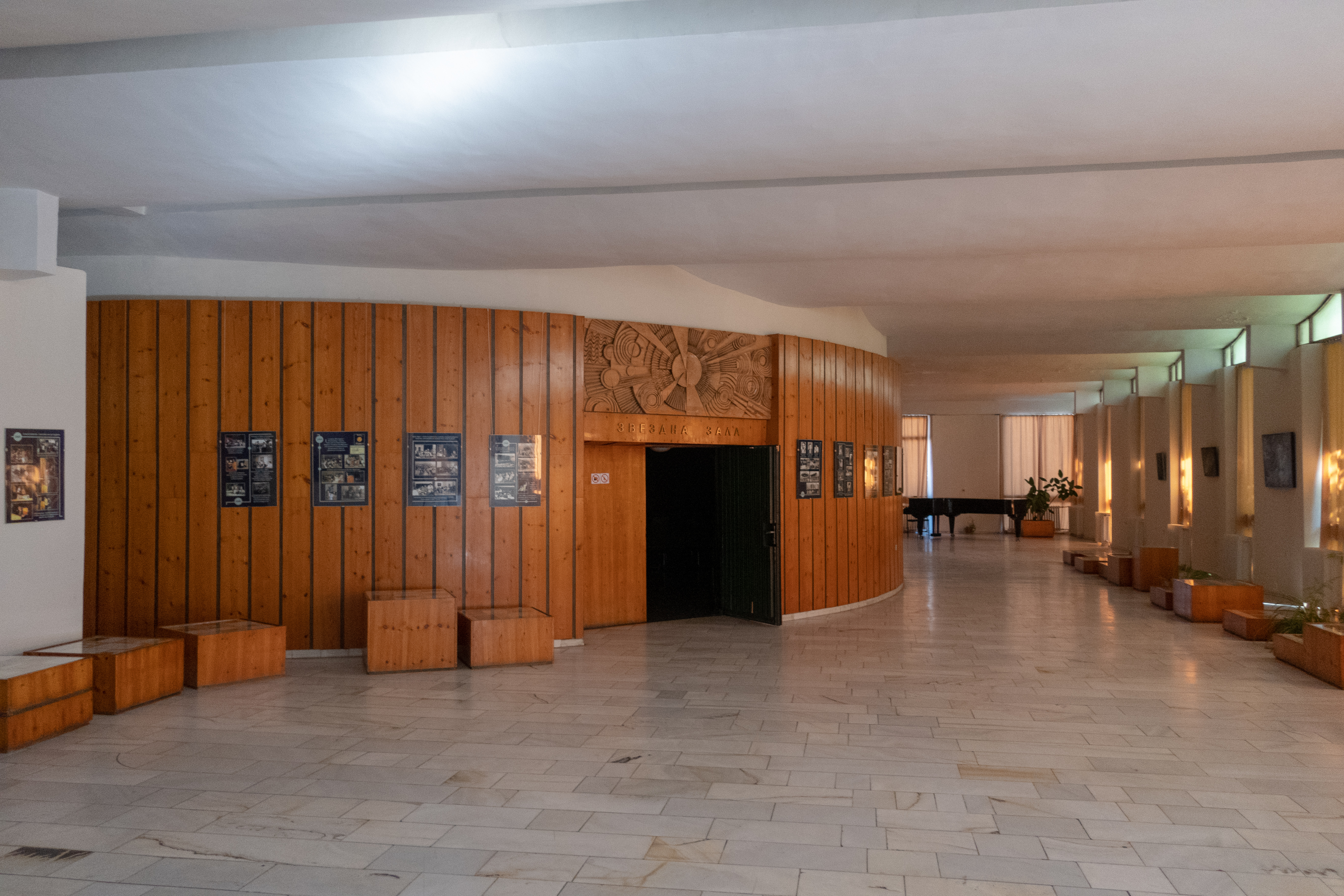 Smolyan Planetarium